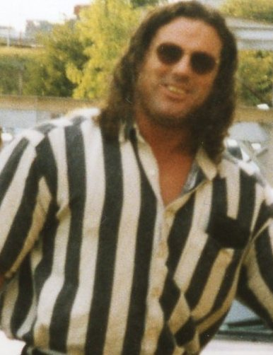 Professional wrestler the British Bulldog